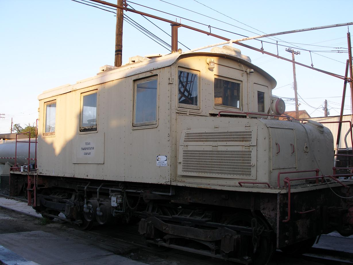 Texas Transportation Co.'s Engine #1. The electric locomotive as of 17 July 2006. The engine is currently sitting in Trans-Texas Rail Shop's storage yard awaiting restoration.